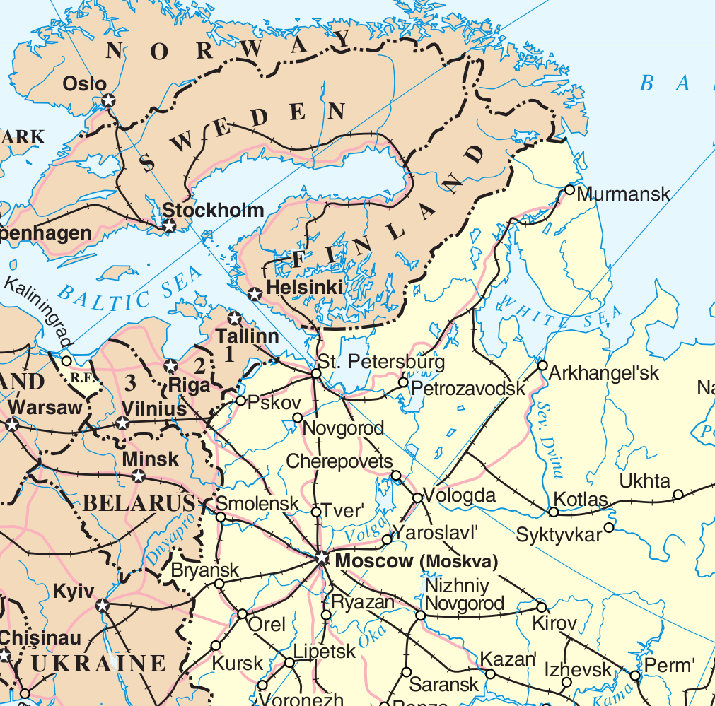 Map showing St. Petersburg, Russia